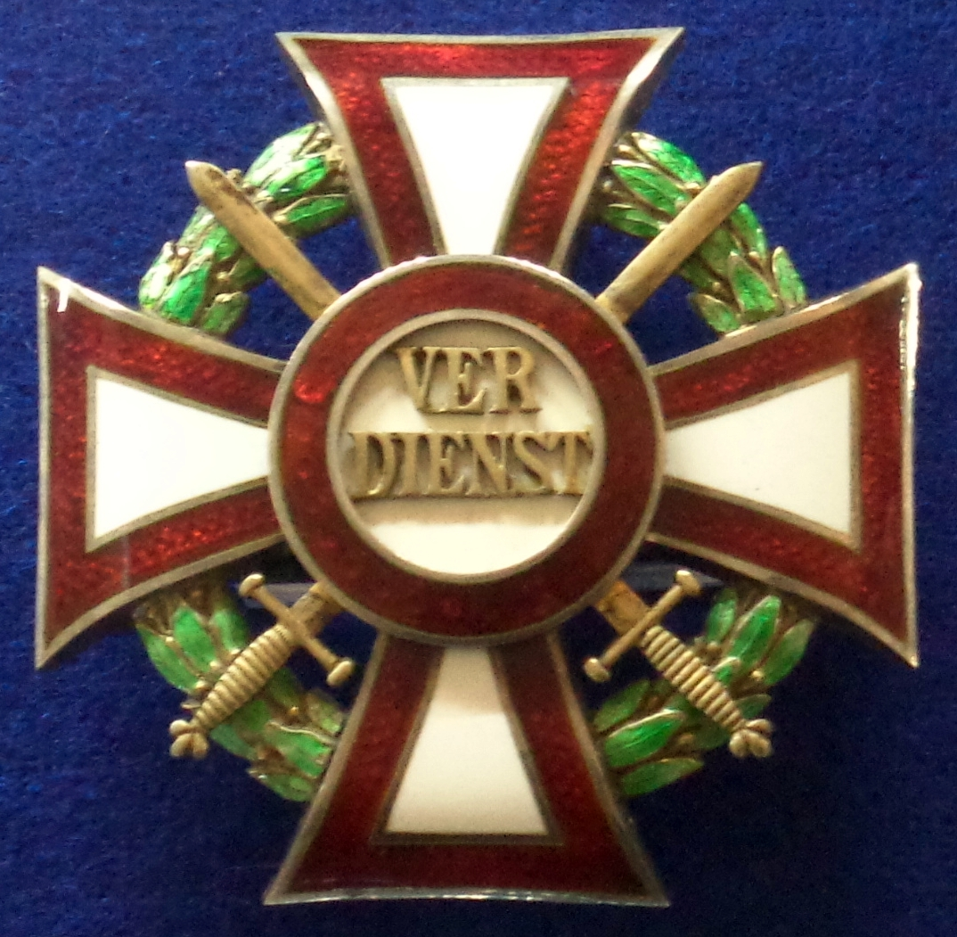 Military Merit Cross 1st class with war decoration, badge 1916-1918. Austro-Hungary. The exhibition of the Tallinn Museum of Orders of Knighthood, Estonia.